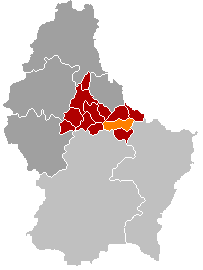 Ermsdorf municipality location (valid until 1 January 2012). Own edit of Kanton DiekirchLocatie.png